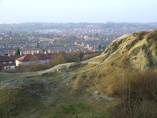 Landscape from Wren's Nest, Dudley, Worcestershire This is looking from the old limestone quarries across parts of north Dudley towards Sedgley.